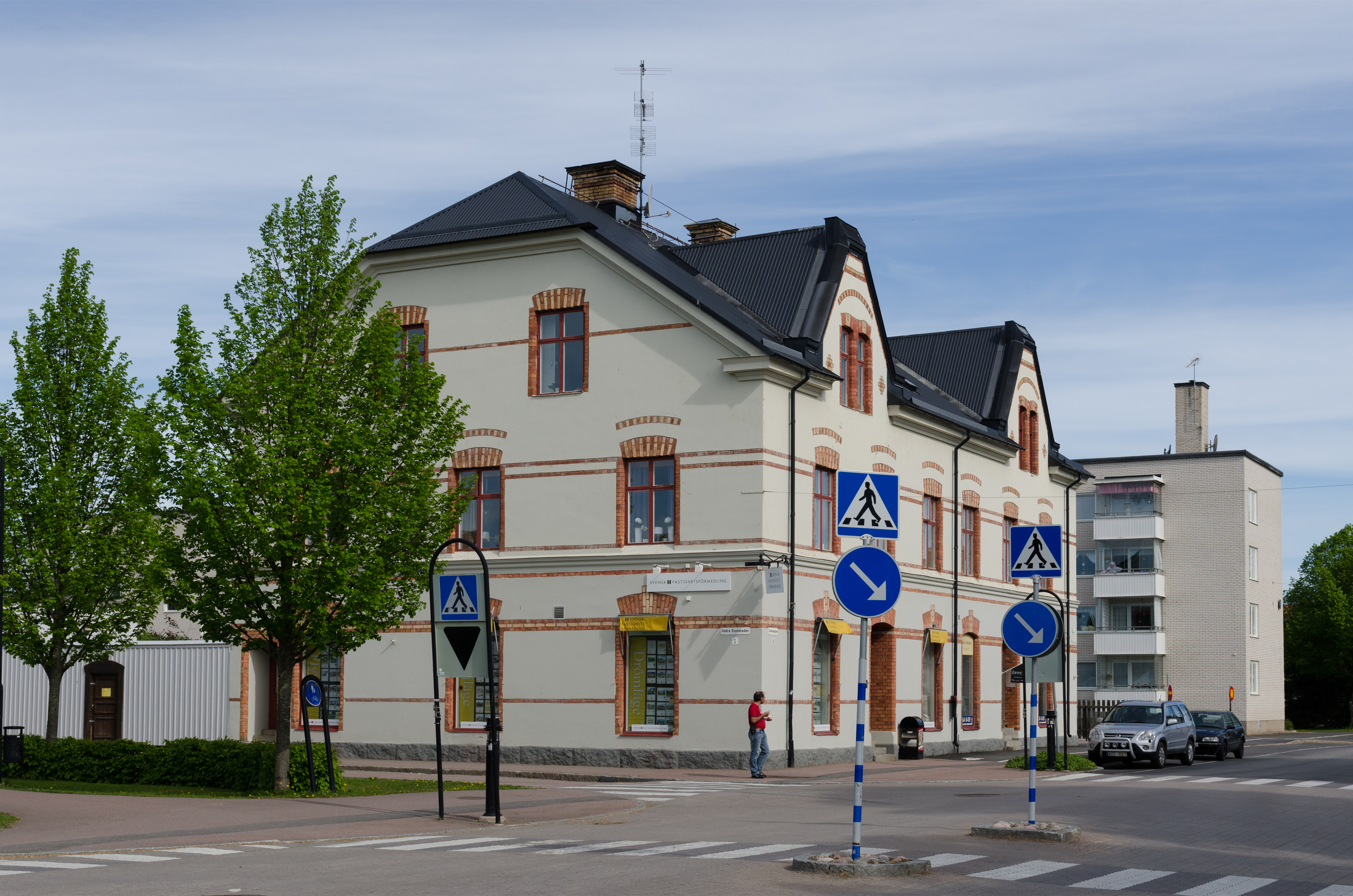 Building at Centralgatan in Tierp.